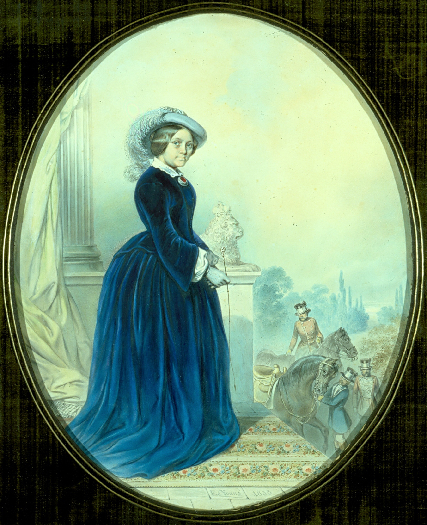 Countess Danner, wife of King Frederick VII of Denmark